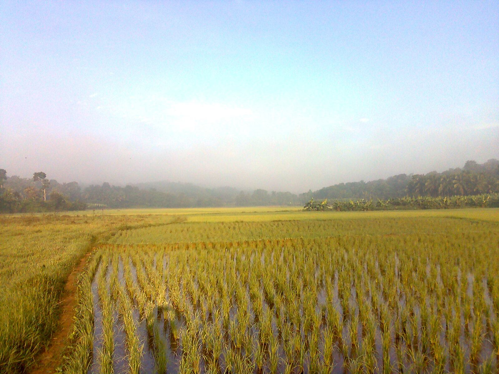 taken by me from puramathra, device nokia x3